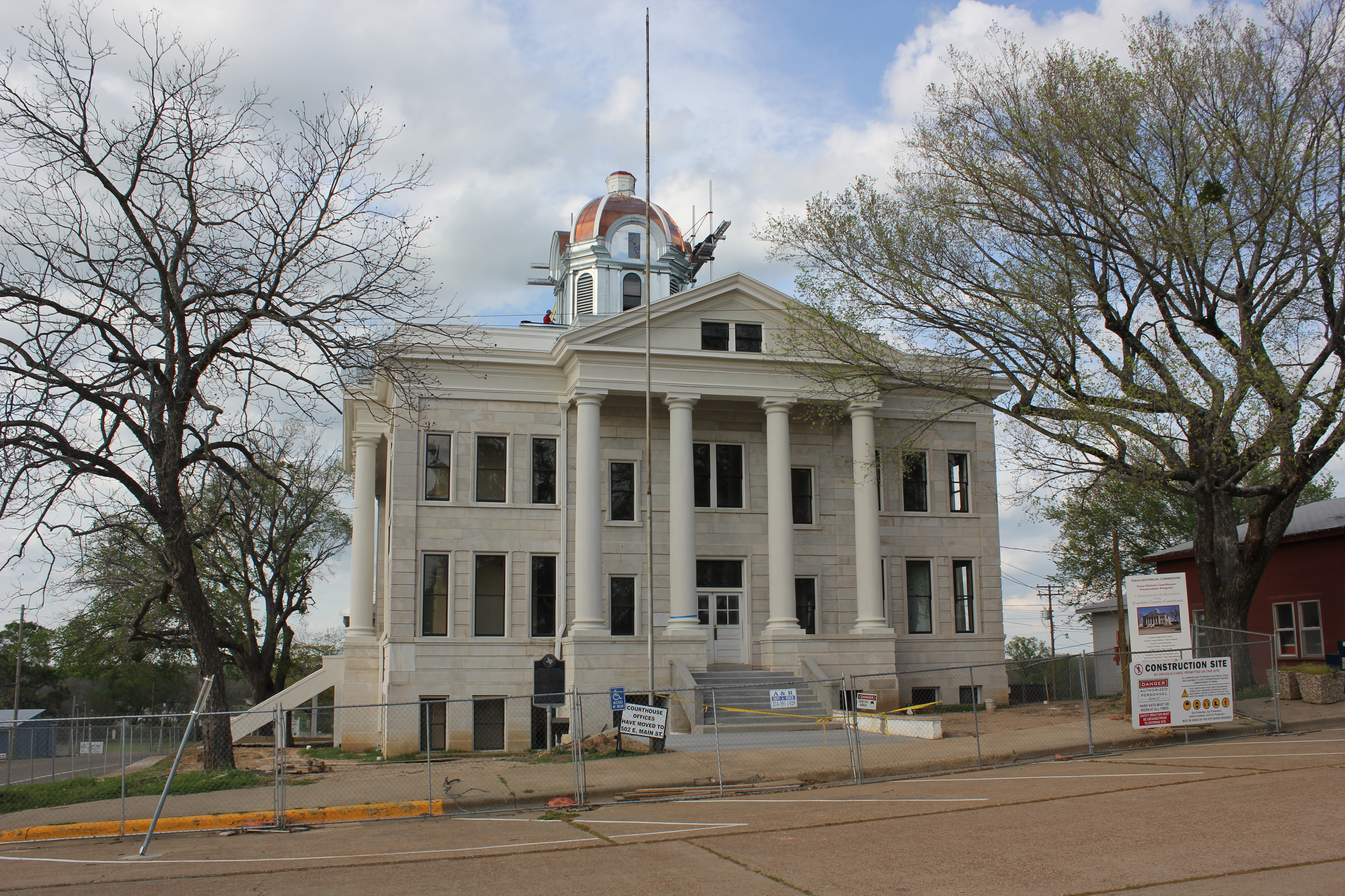 Date - 1912 Architect - L. L. Thurman, Dallas Style - Classical Revival Currently undergoing renovation.